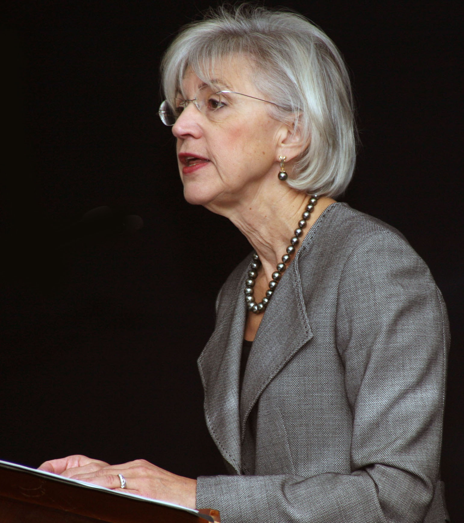 Beverley McLachlin, the Chief Justice of the Supreme Court of Canada, speaks to the Federal supreme Court of Brazil